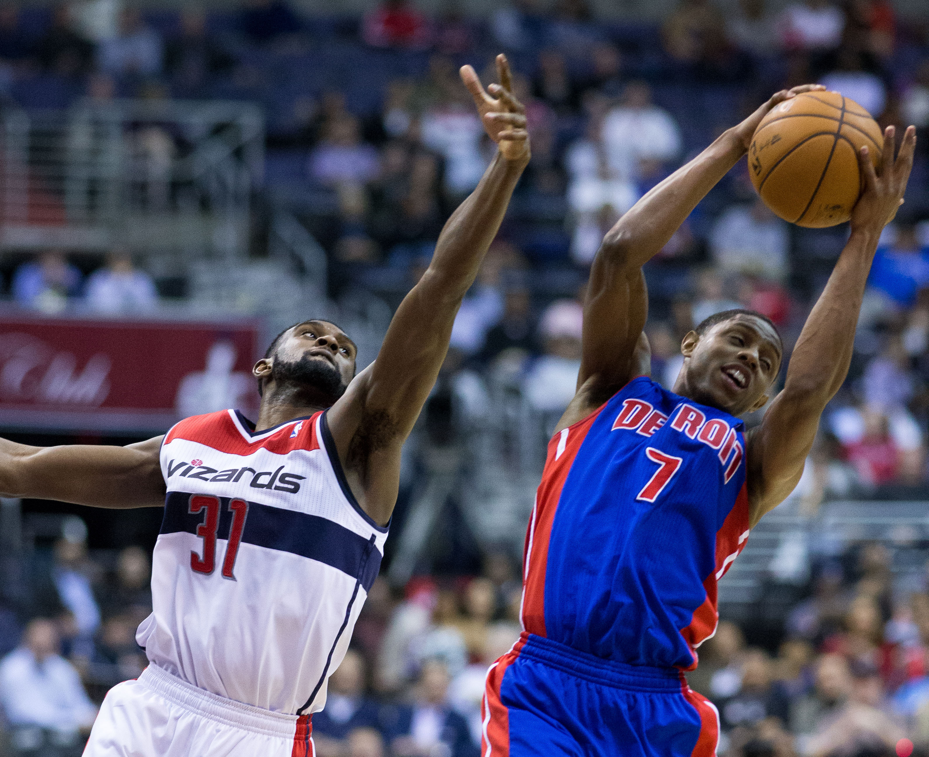 Detroit Pistons at Washington Wizards Feb 27, 2013